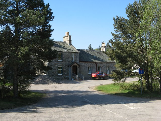 Moy Station